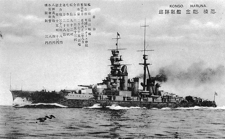 Kongo (Japanese battlecruiser, 1913) Photograph printed on a postal card. It was taken between 1925 and 1928. The Japanese language caption in upper left center gives information on the ship's construction, displacement, dimensions and armament. Text in upper right identifies Kongo and Haruna as having this appearance. However, only Kongo had the searchlight platform between the first and second smokestacks, as seen here. See Photo # NH 89176 for an identical view, with very similar Japanese language caption. U.S. Naval Historical Center Photograph.